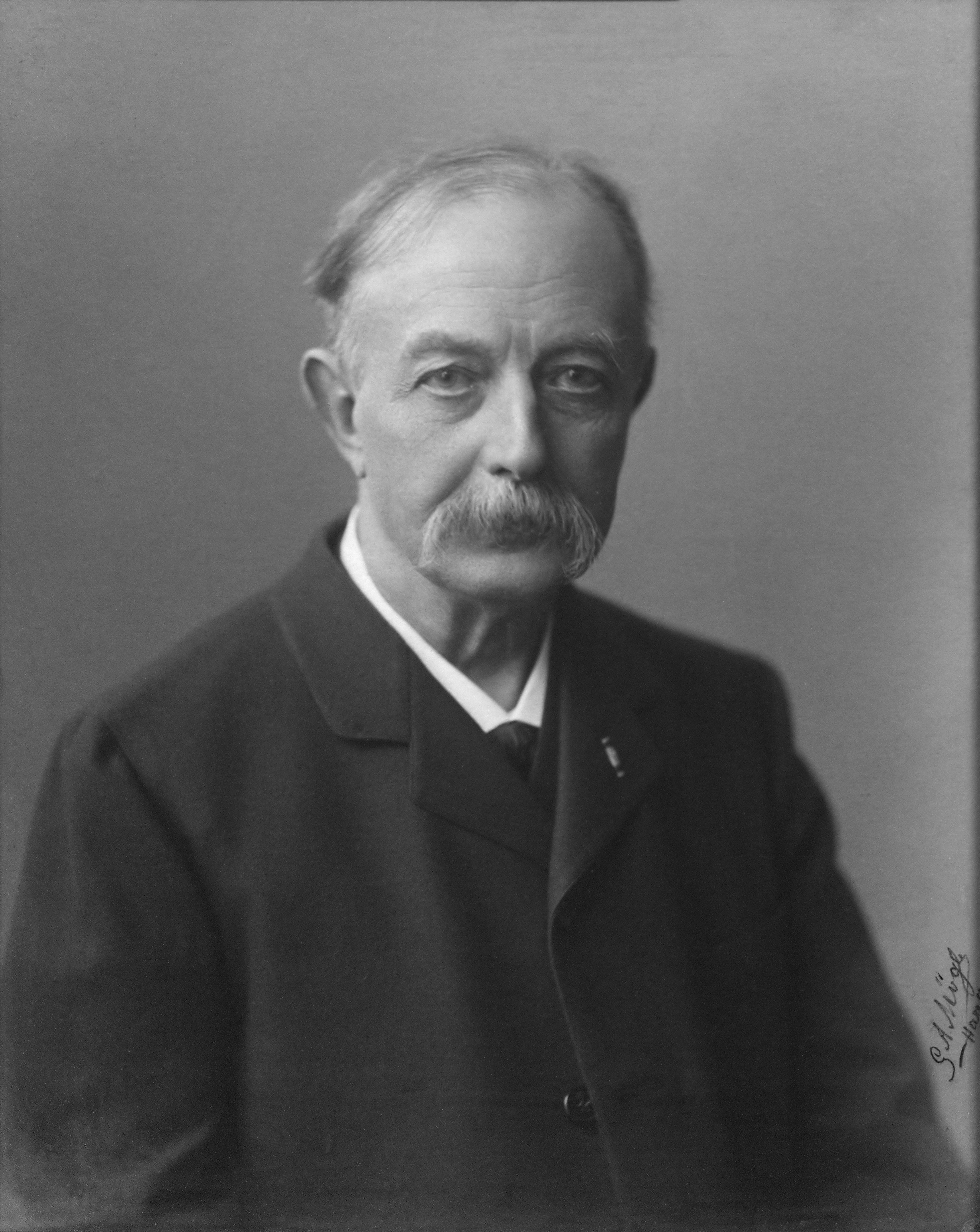 S. de Ranitz